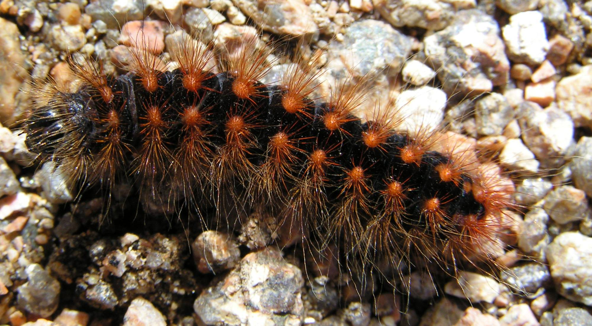 Caterpillar of Acronicta auricoma